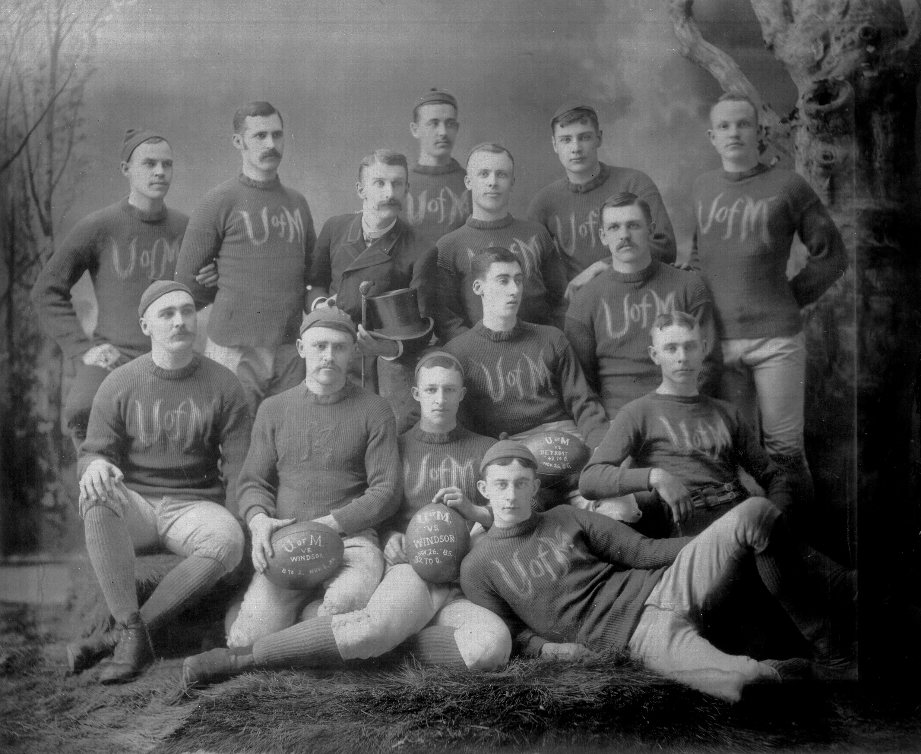 Photograph of 1885 Michigan Wolverines football team.